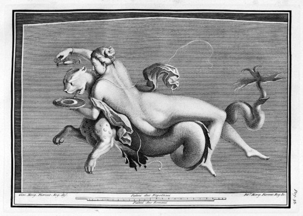 Nereid on a panther, wall painting from Stabiae, Villa Arianna reproduced in Le Antichità di Ercolano v3